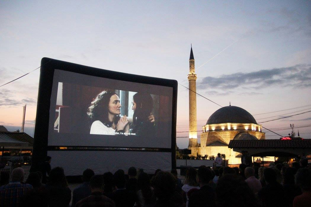 DokuFest: National shorts screening at DokuKino Plato